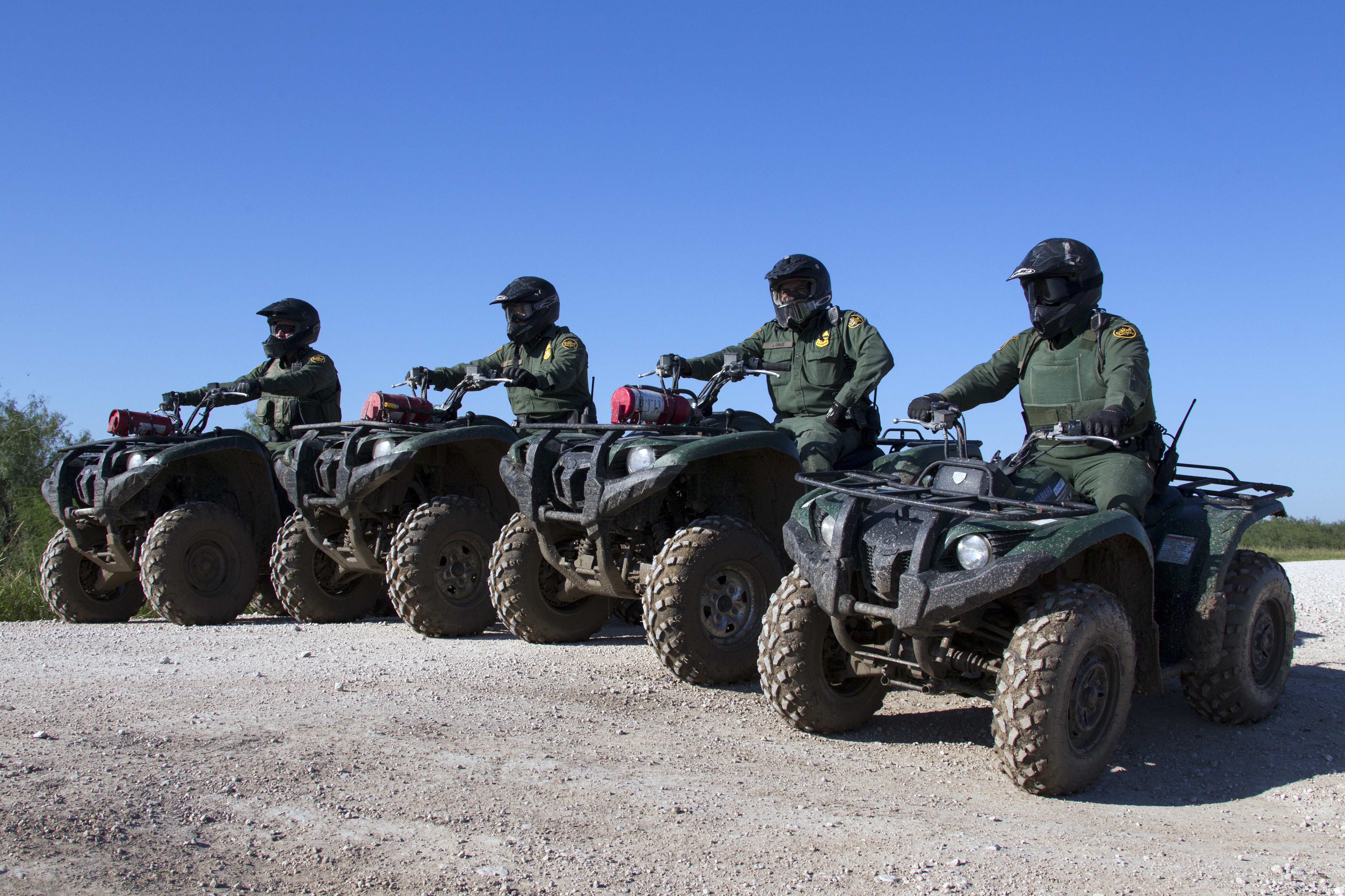 Border Patrol Agent Patrols South Texas Border on an All Terrain Vehicle (ATV) taken on September 23, 2013. Photographer: Donna Burton